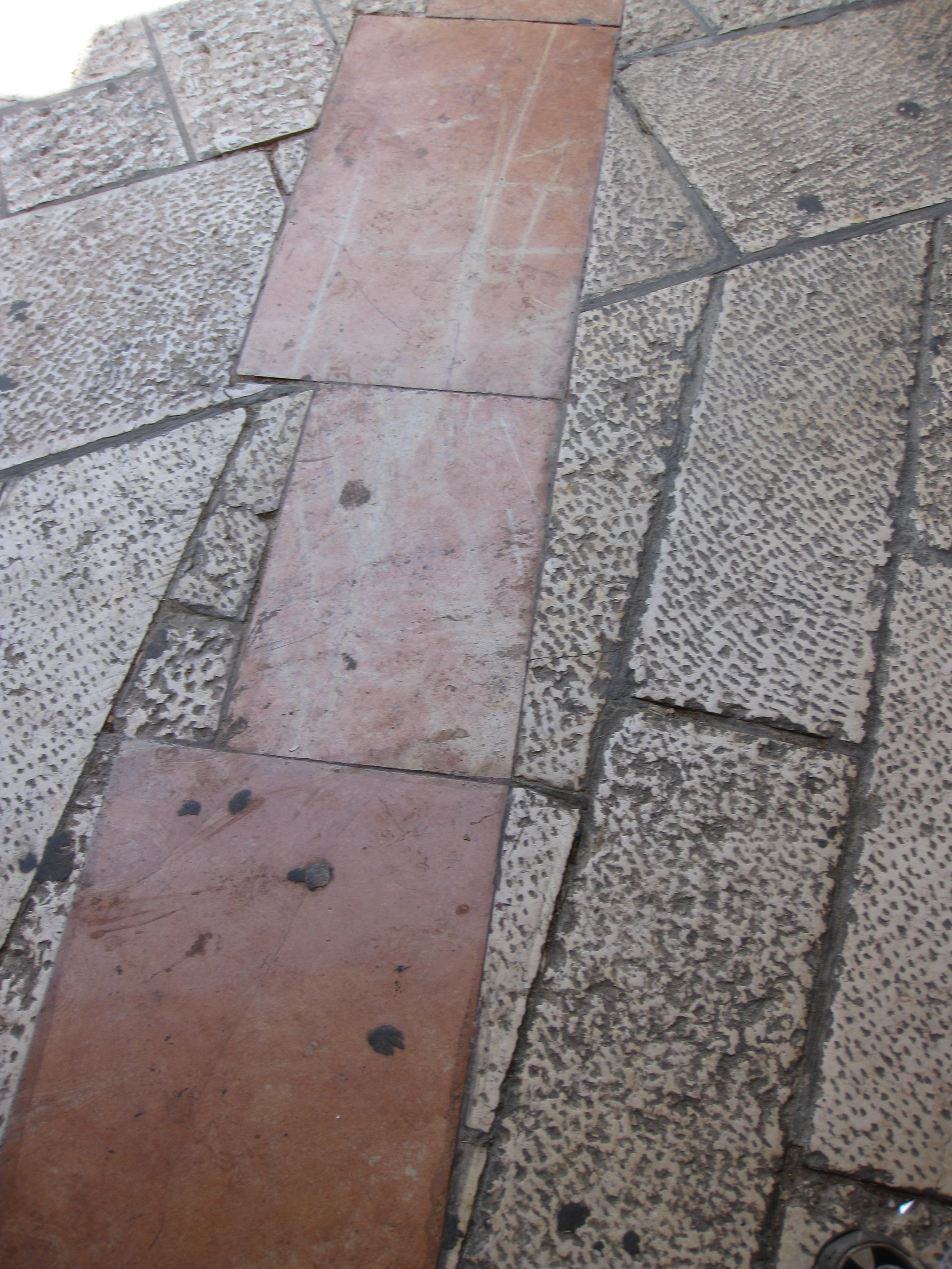 Location of the Broad Wall